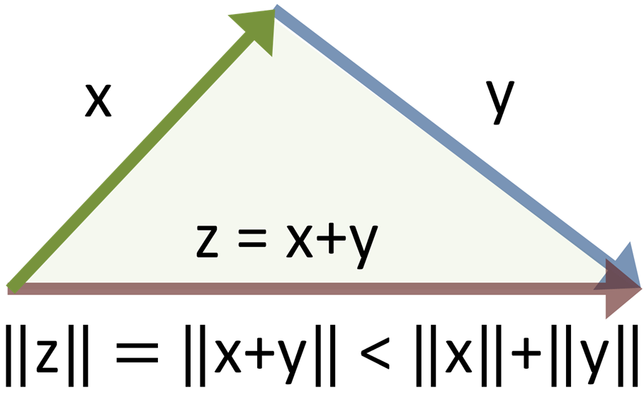 Vector sum and inequality for norms